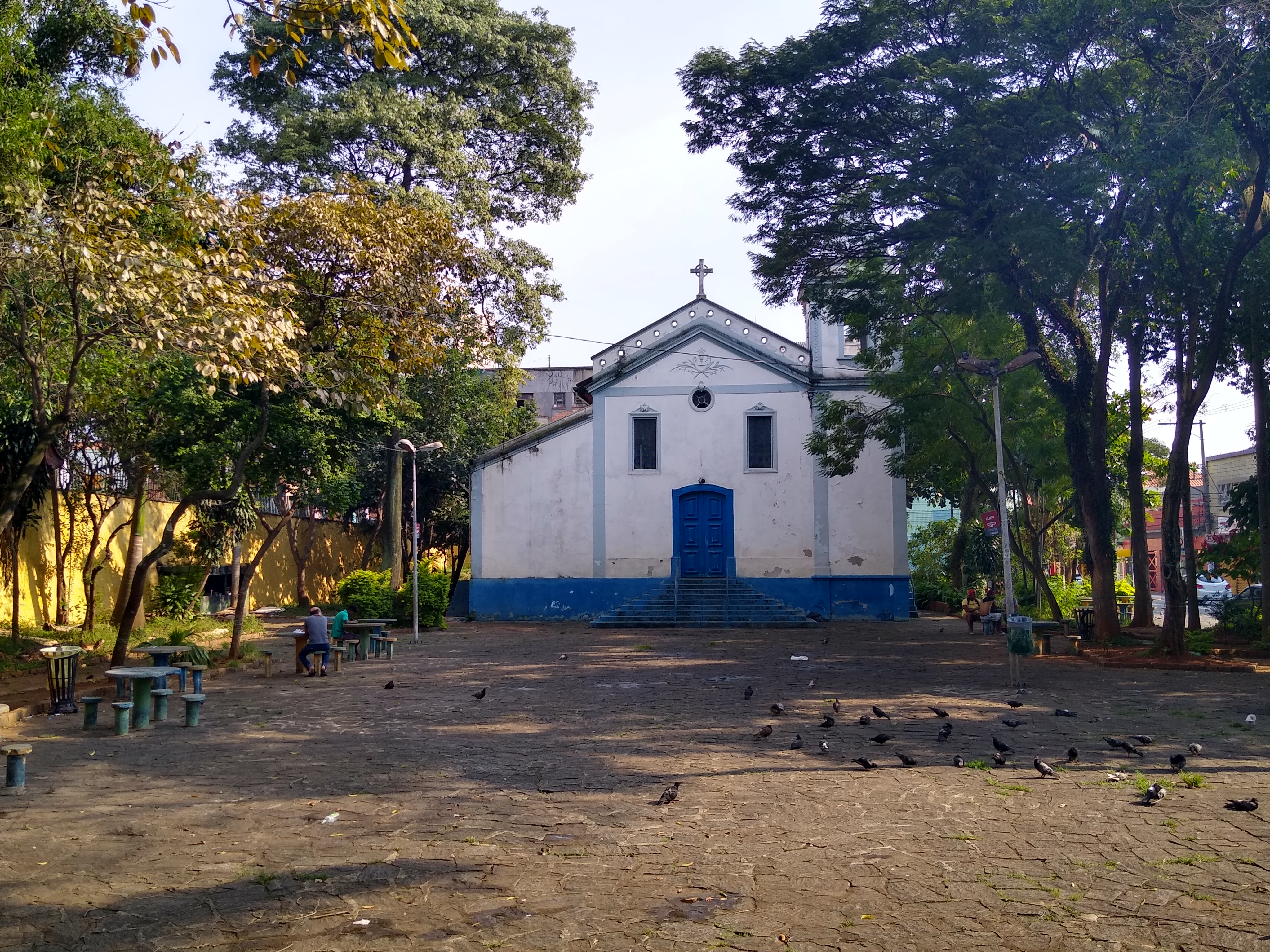 Igreja do Rosário